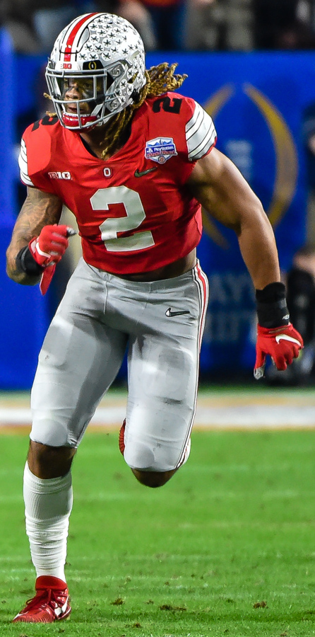 Young vs. Clemson